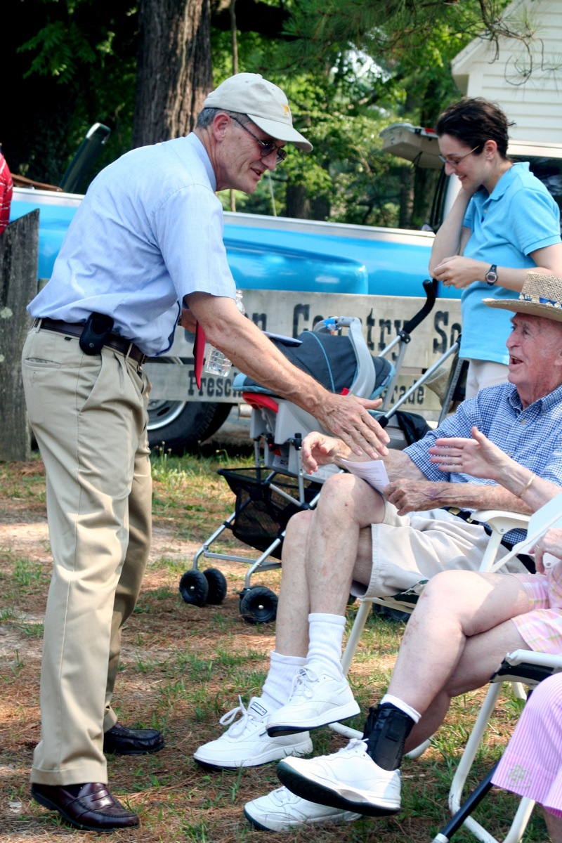 Congressional candidate Al Weed engages in a little retail politics. His opponent, Rep. Virgil Goode, also campaigned along the parade route.